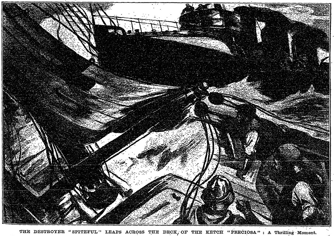 A contemporary artist's impression of a collision that occurred near Yarmouth, on the Isle of Wight, between the torpedo boat destroyer HMS Spiteful and a barge named Preciosa on 4 April 1905. Two crew members on the barge died, and, after a court martial, the officer in charge of Spiteful at the time lost six months' seniority and was dismissed from the ship.